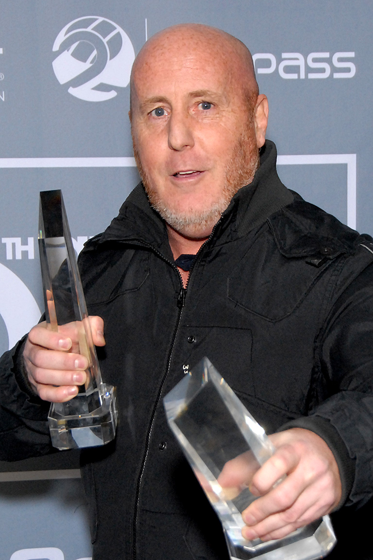 Robby D., Santa Monica, California on January 10, 2012 - Photo by Glenn Francis of